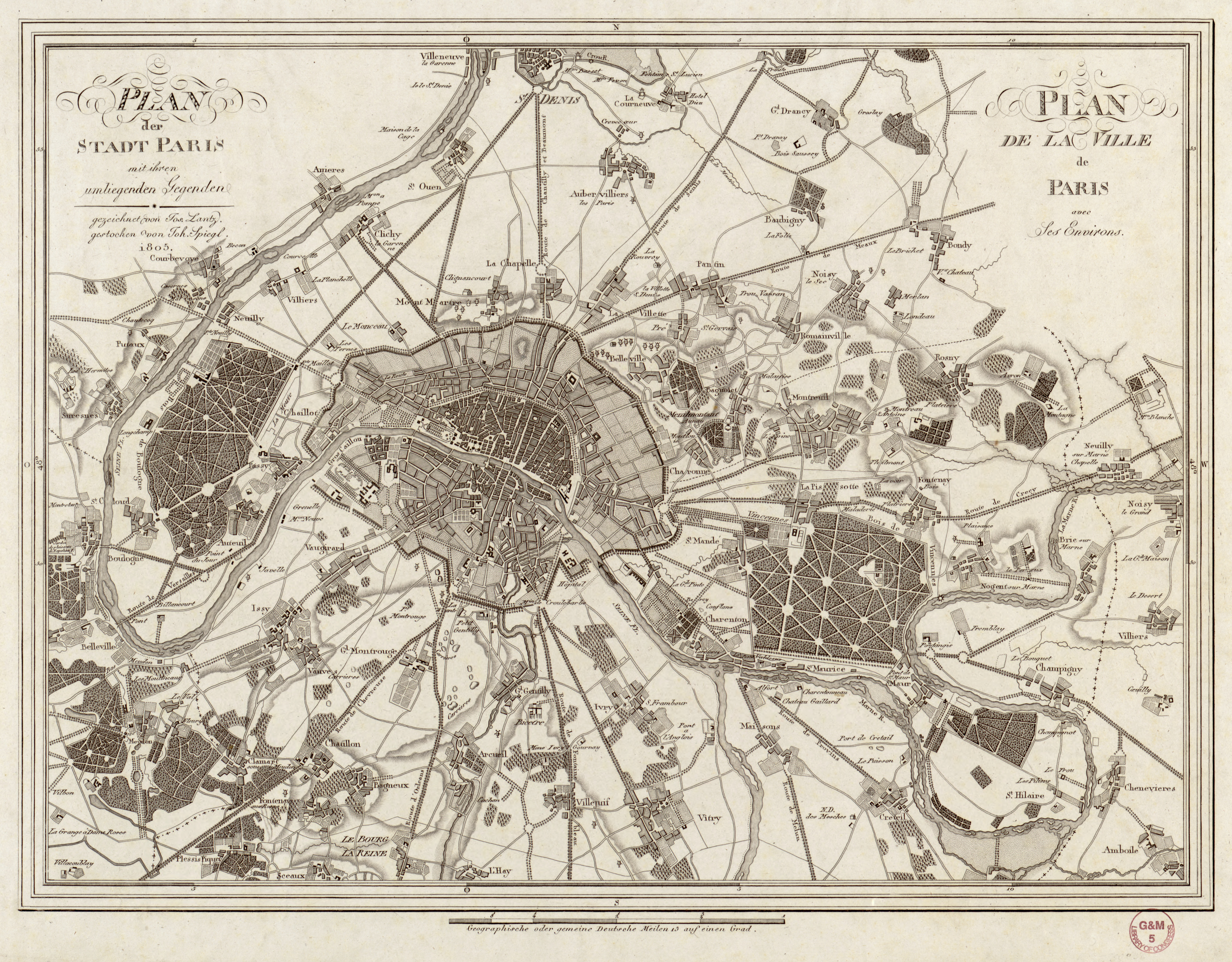 Map of Paris in 1805. Scale ca. 1:10,600.